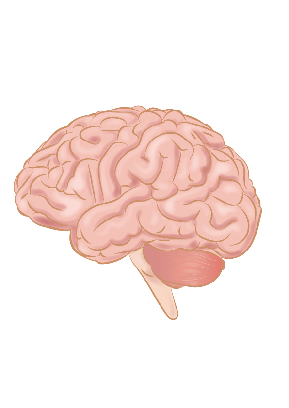 An illustration of the human brain seen from the side.